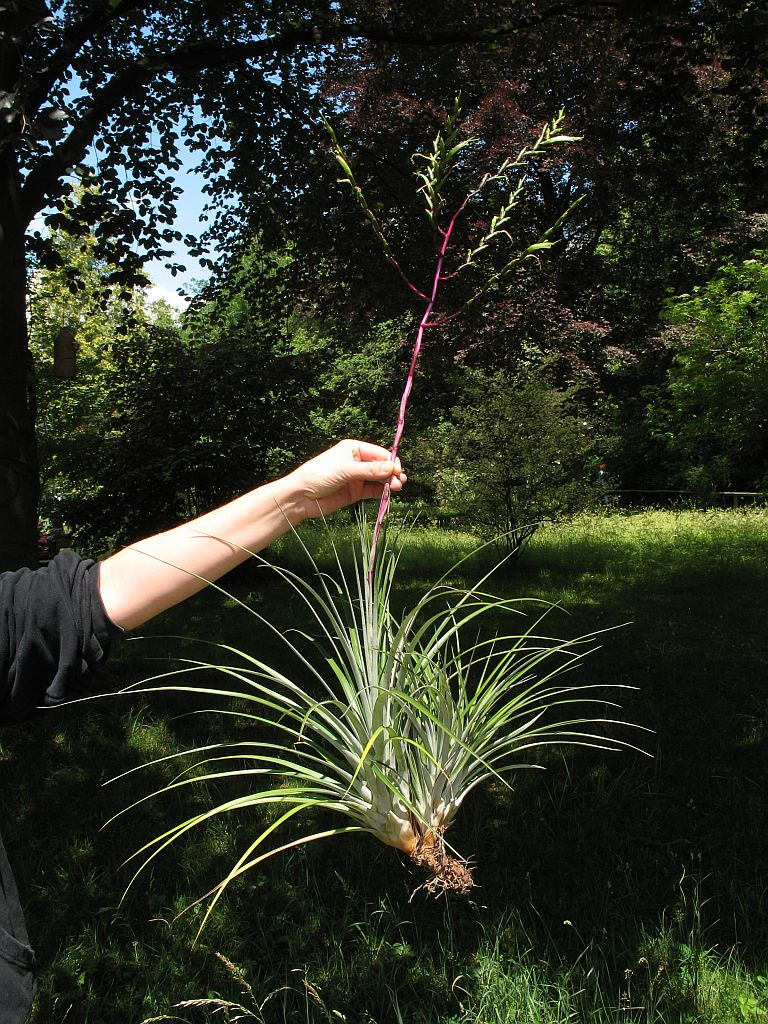 Tillandsia limbata in cultivation at the Botanical Garden of Heidelberg, Germany.